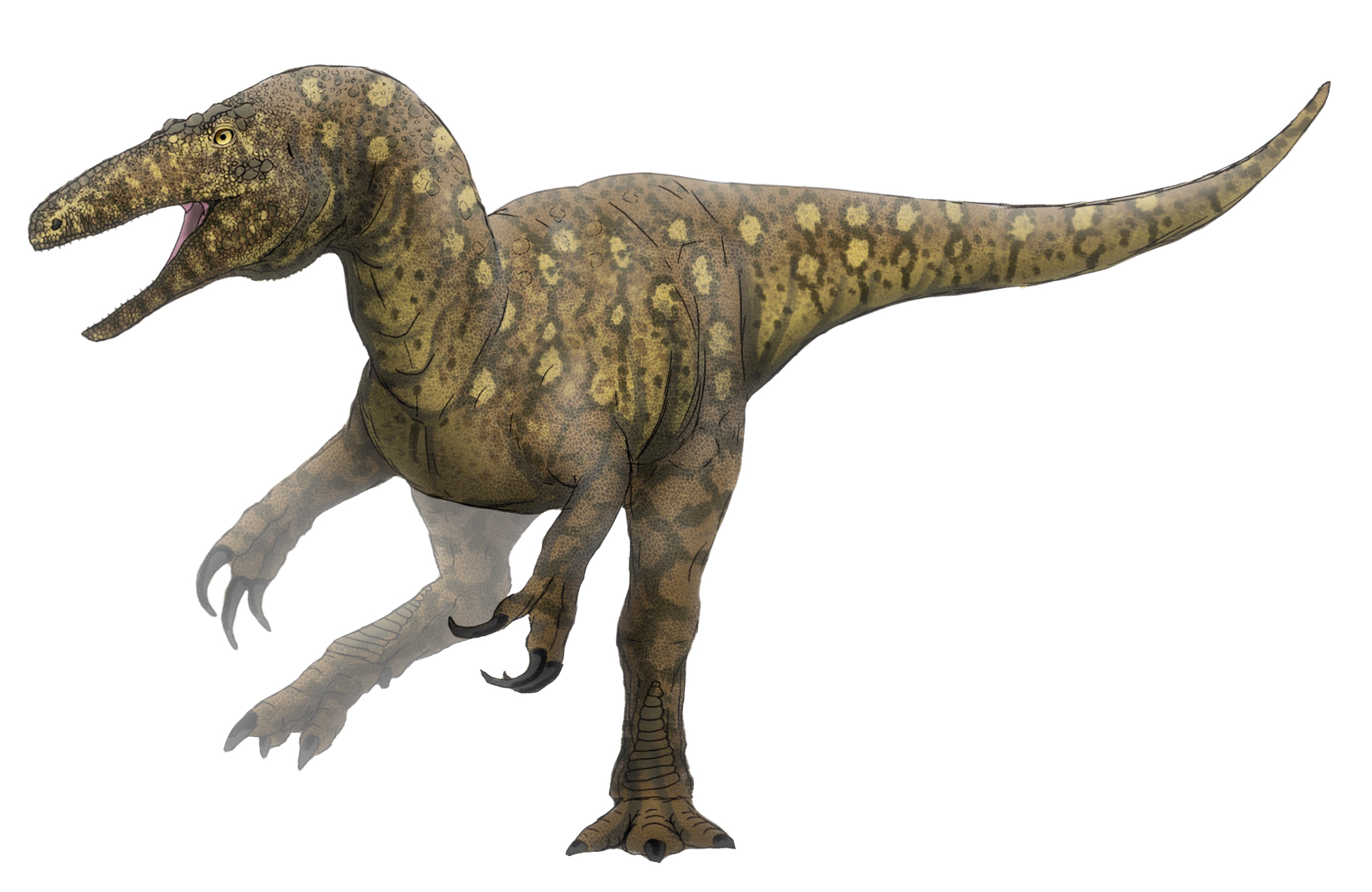 A restoration of Australovenator wintonensis, Early Cretaceous theropod of Australia. It fed on ornithischians like Muttaburrasaurus and Minmi.